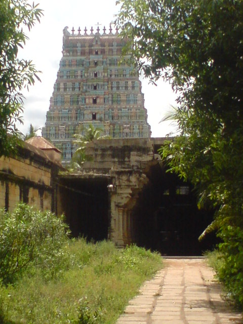 Temple view